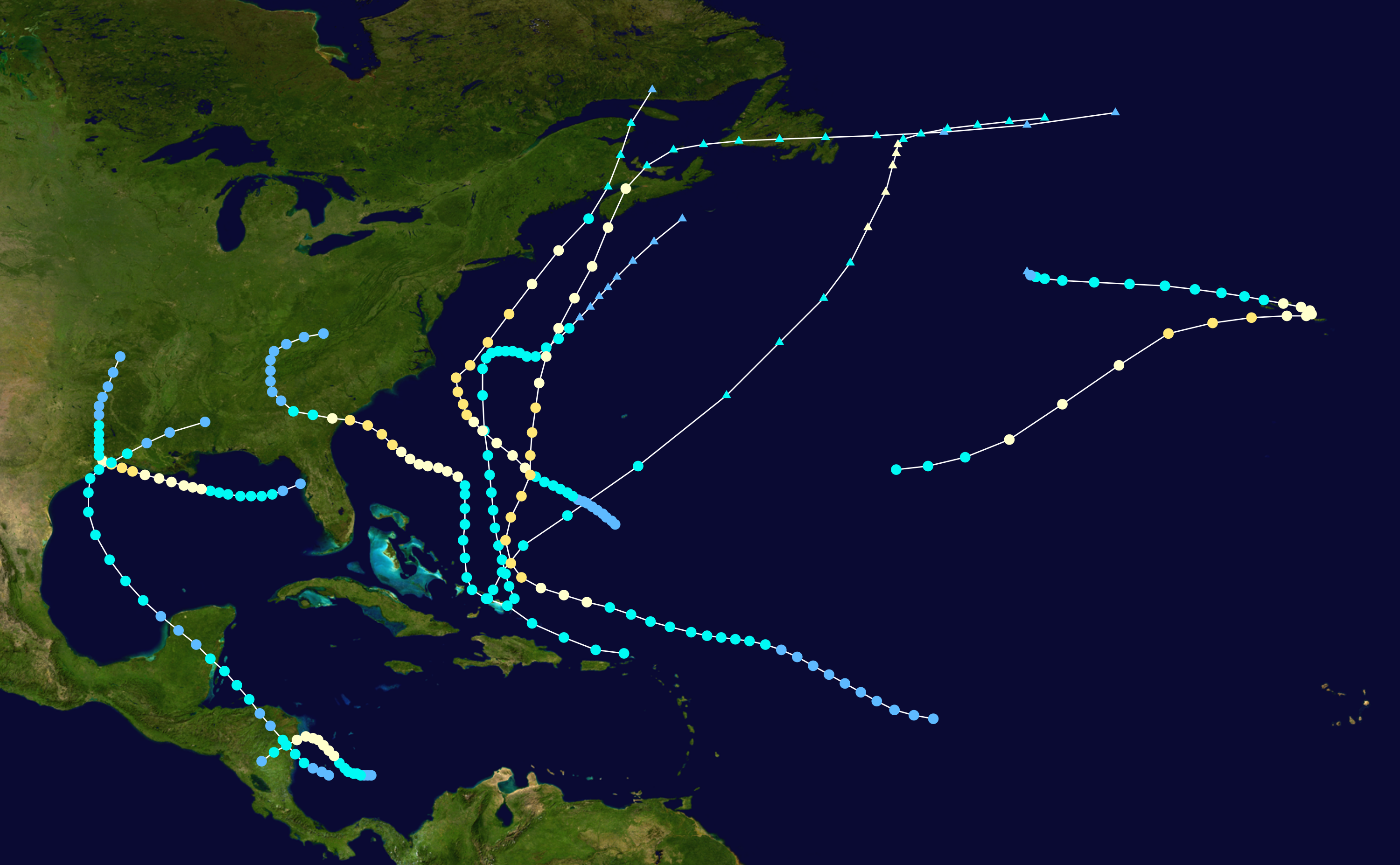 Track map of all storms of the 1940 Atlantic hurricane season. The points show the location of the storm at 6-hour intervals. The colour represents the storm's maximum sustained wind speeds as classified in the Saffir–Simpson hurricane wind scale (see below), and the shape of the data points represent the nature of the storm, according to the legend below. Saffir–Simpson hurricane wind scale Tropical depression≤38 mph≤62 km/h Category 3111–129 mph178–208 km/h Tropical storm39–73 mph63–118 km/h Category 4130–156 mph209–251 km/h Category 174–95 mph119–153 km/h Category 5≥157 mph≥252 km/h Category 296–110 mph154–177 km/h Unknown Storm typeTropical cycloneSubtropical cycloneExtratropical cyclone / Remnant low / Tropical disturbance